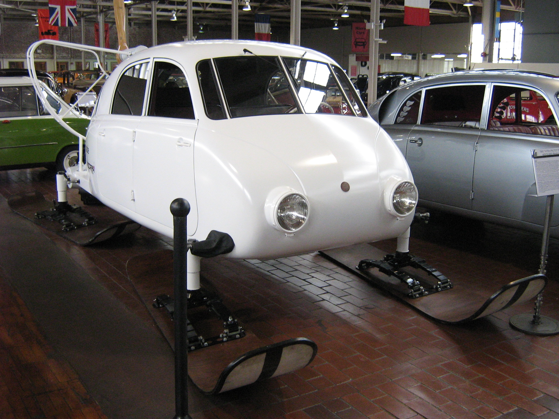 1942 Tatra Prototype Aeroluge Replica made by ECORRA. See videos and more pictures of it